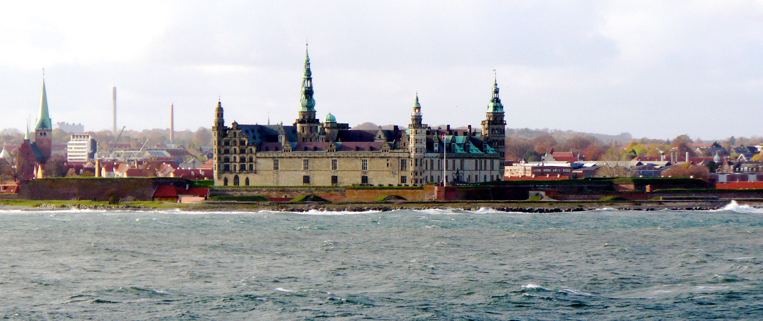 Helsingør / Elsinore viewed from sea side. Visible from left : Sct Olav Cathedral, Hammershøj Care Centre by Jørn Utzon and Kronborg Castle